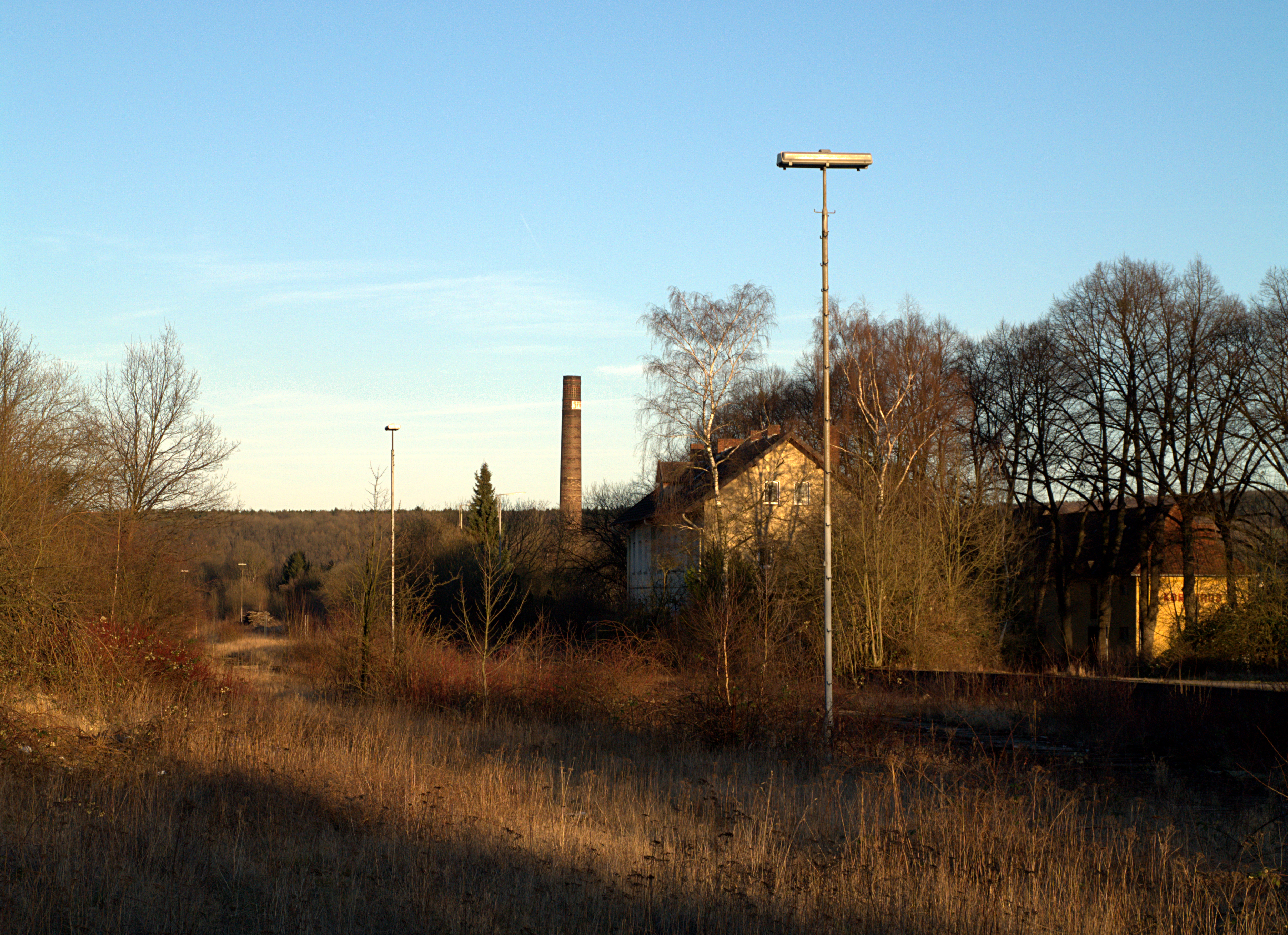 The remainders of the train station in Büren (Westfalia) in February 2008. The light yellow house behind the trees used to be the terminal building.